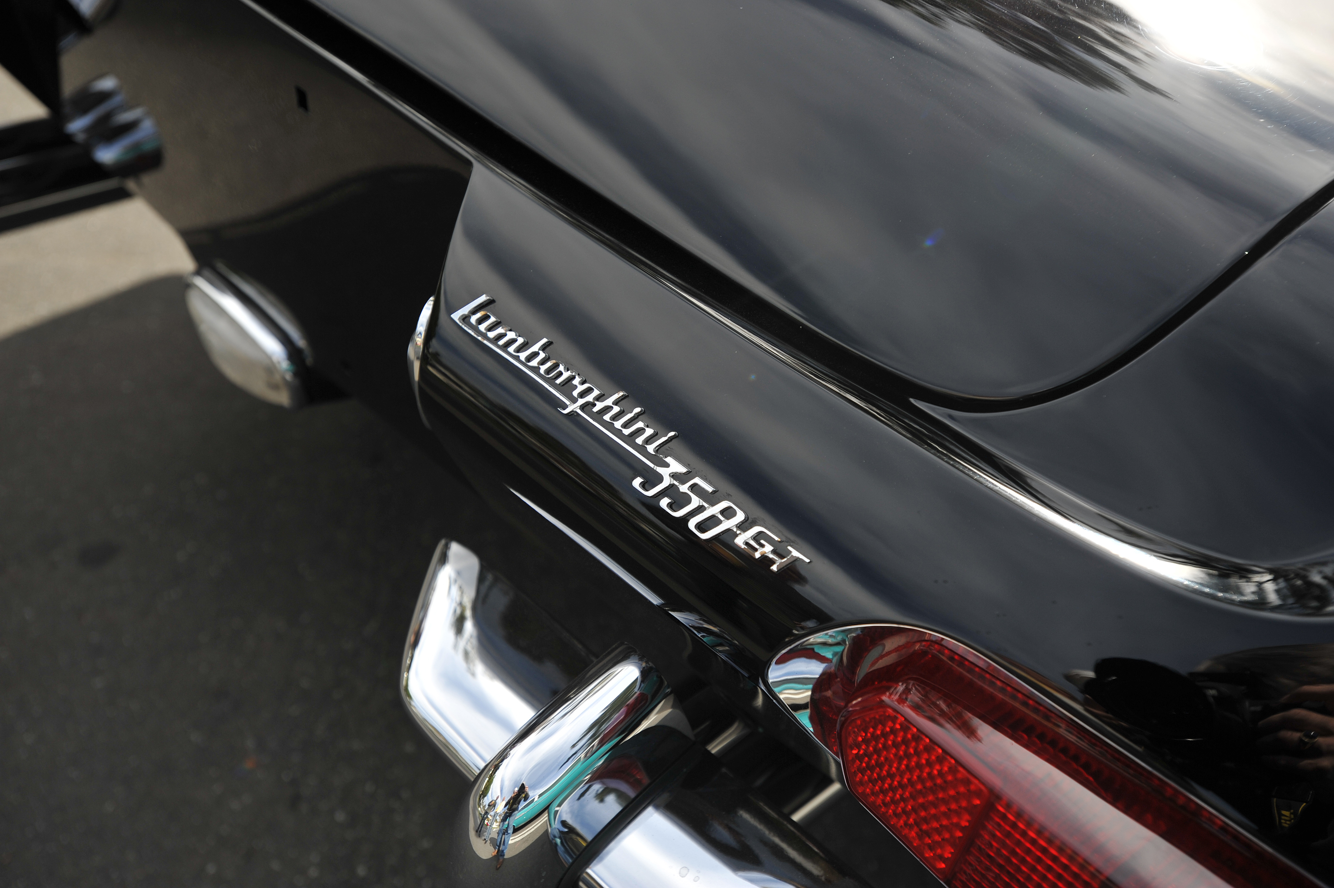 Close up detail of 1965 Lamborghini 350GT coupe.